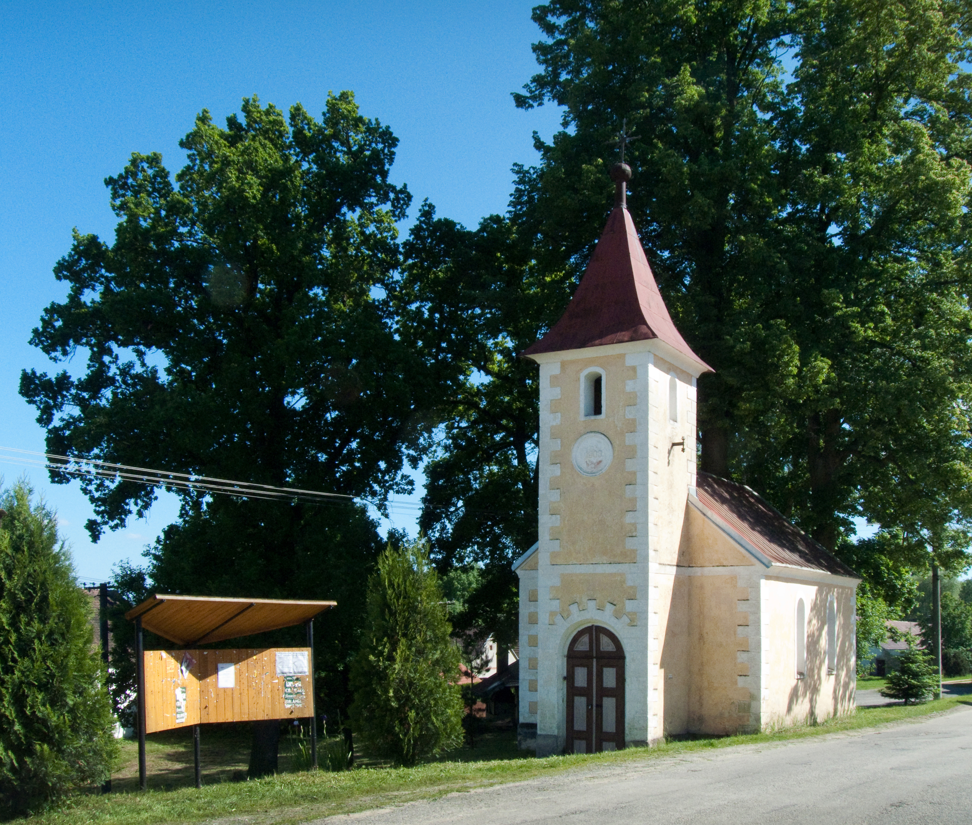 St. Paul Chapel in the village of Višňová, Jindřichův Hradec district, Czech Republic